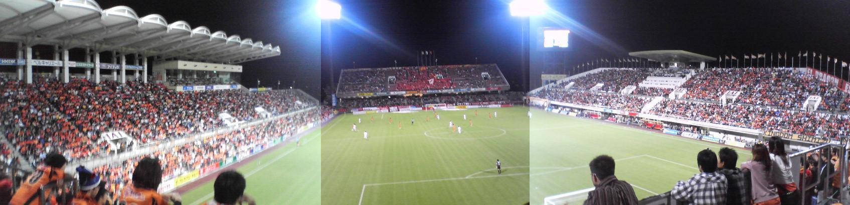 Shimizu S-Pulse versus Nagoya Grampus 8 October 2007